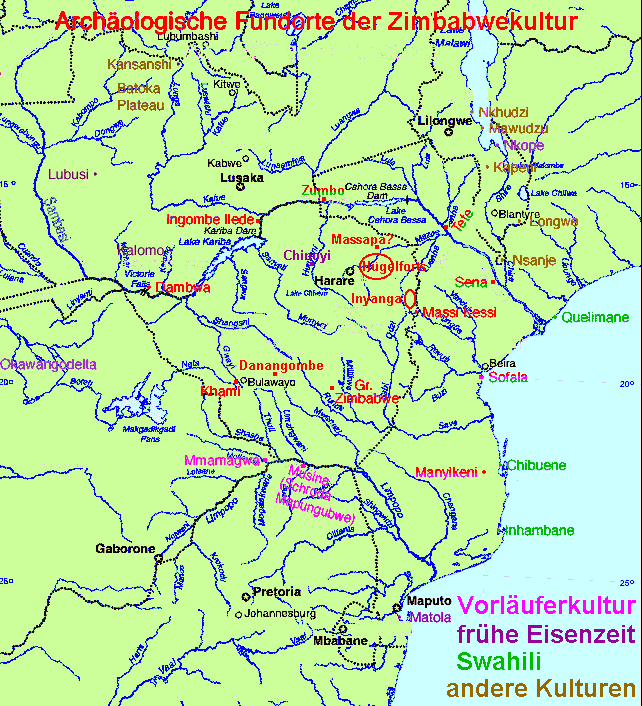 Archeological sites of ancient Zimbabwe culture (red), its predescessors (pink), Swaheli [green} and other neighbouring cultures (brown) and early iron age (lilac) of that region